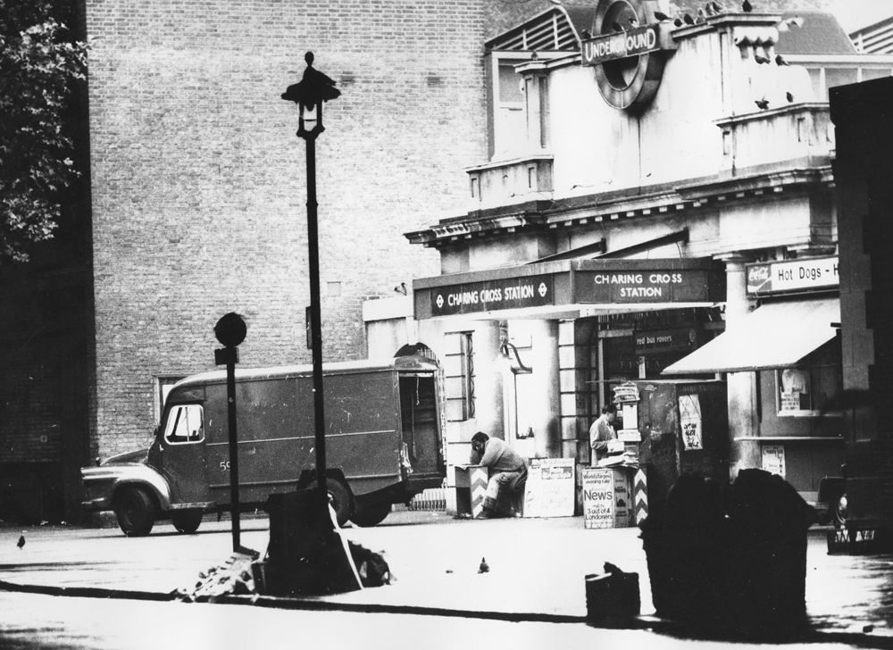 London, Charing Cross tube station, circa 1974, but before 4 August 1974, when the station was renamed Charing Cross Embankment. On 12 September 1976, it was renamed Embankment, so that the merged Strand and Trafalgar Square stations could be named Charing Cross.